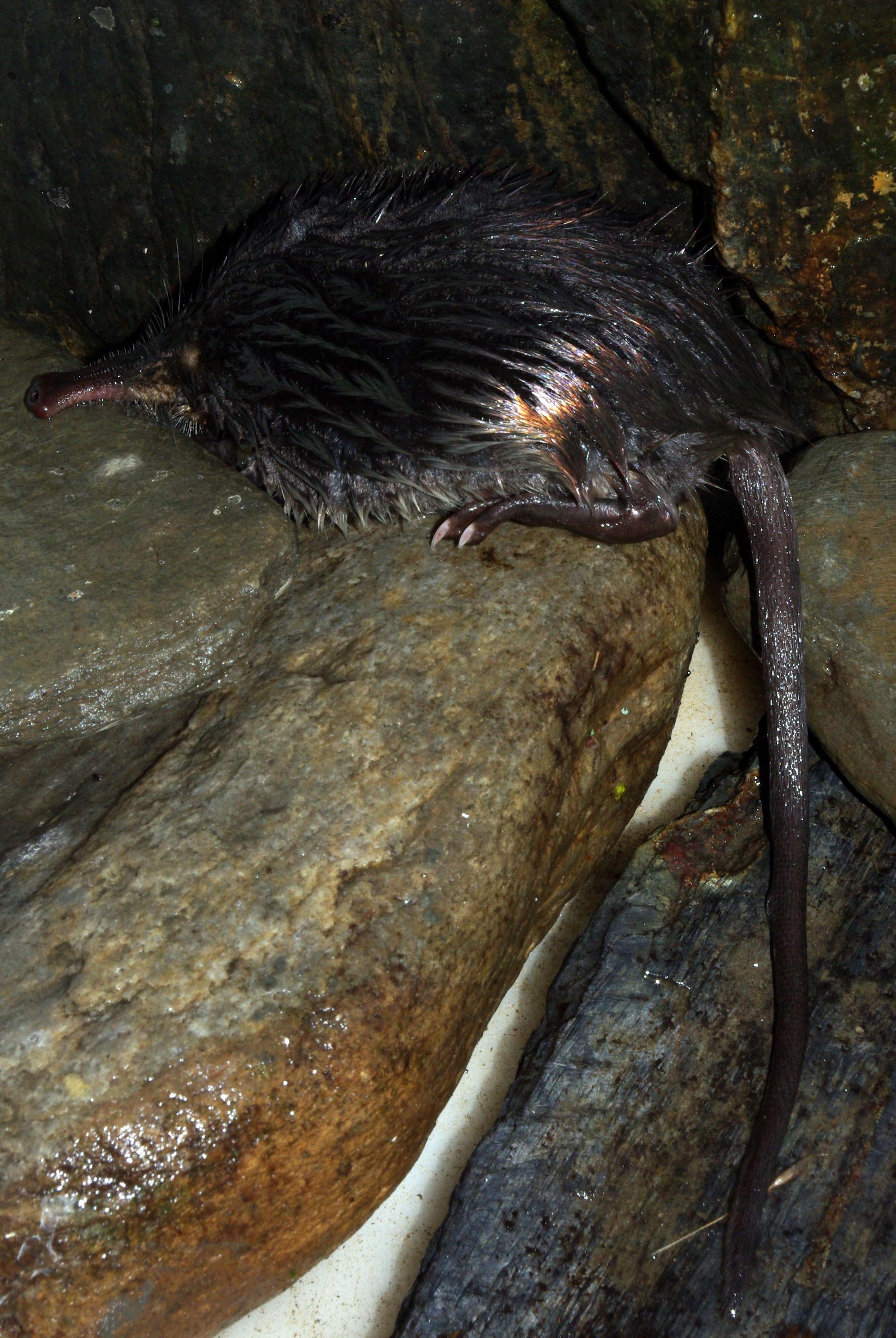 Pyrenean Desman (Galemys pyrenaicus). River Santa Eulalia, Cabrera sub-basin, Sil basin. Santa Eulalia de Cabrera, León (Spain)